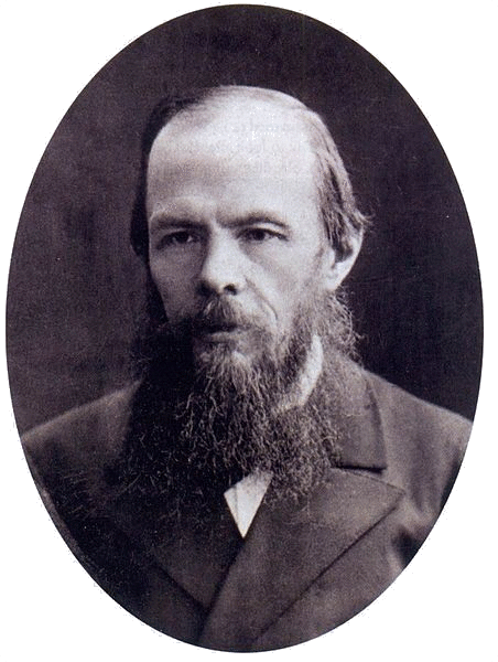 Photo of F. Dostoevsky